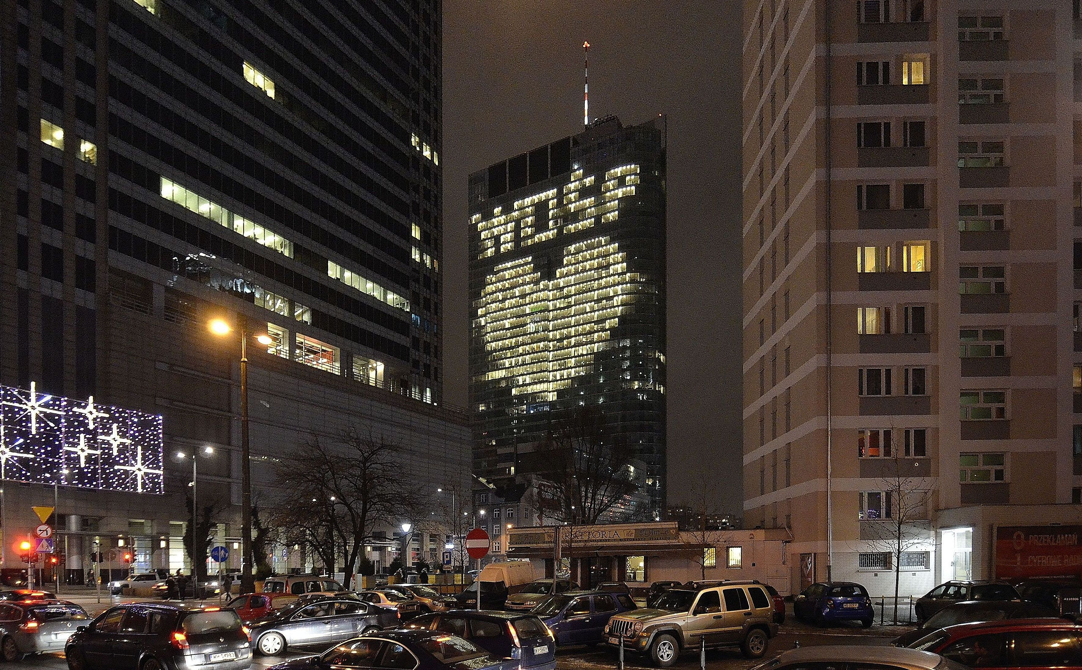 Rondo 1 office building in Warsaw during XXIV Great Final of the Great Orchestra of Christmas Charity